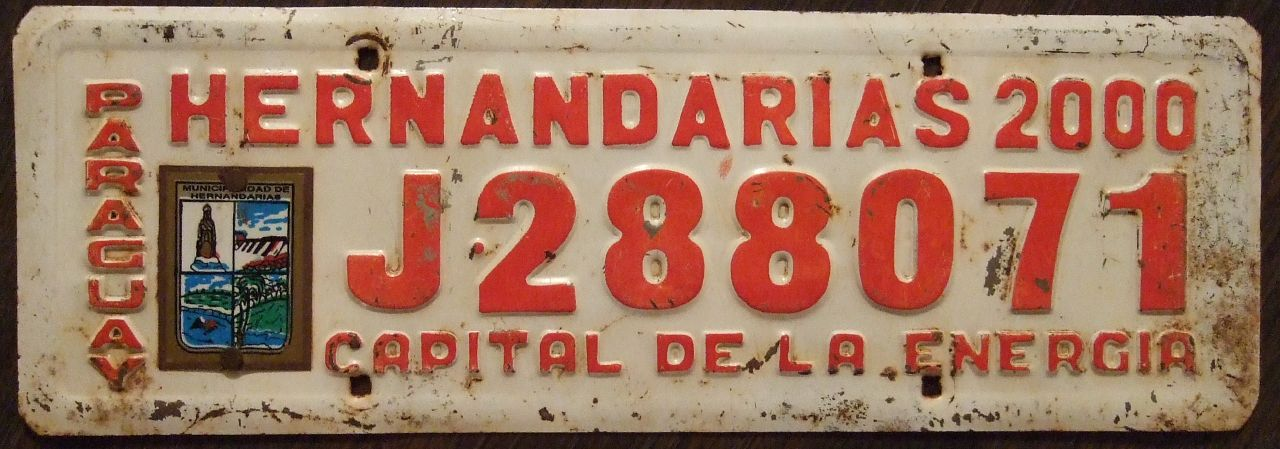 This plate with the slogan "CAPITAL DE LA ENERGIA" Energy Capital.